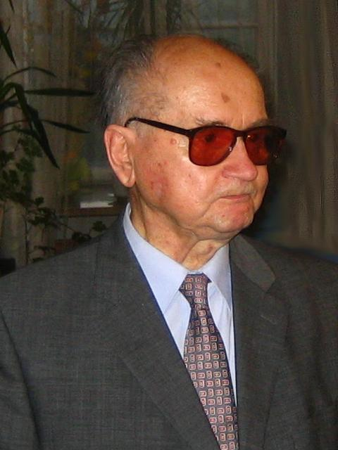 Wojciech Jaruzelski